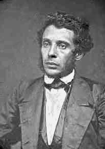 Alfred Francis Russell 10th President of Liberia